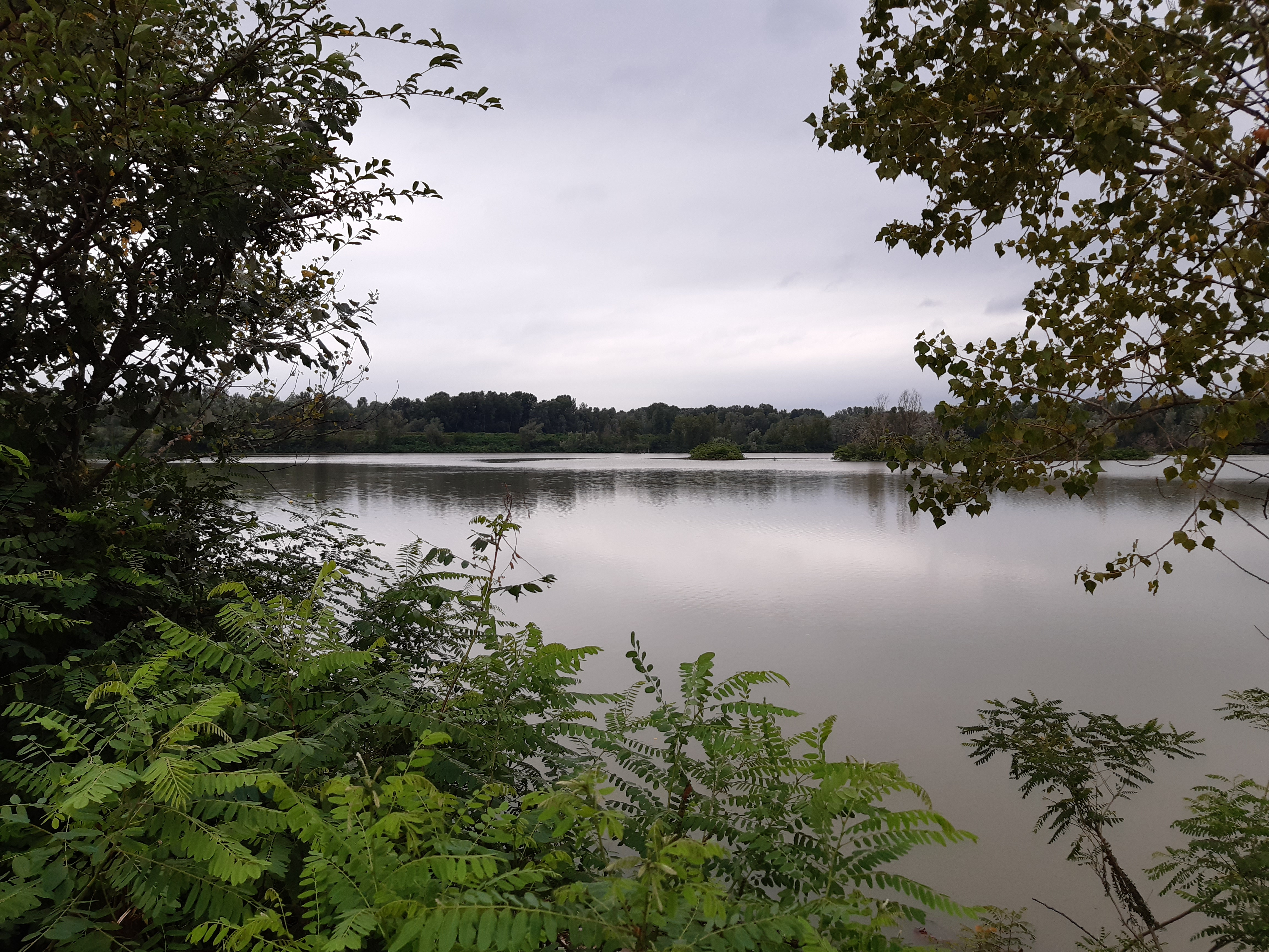 The overflow case of river Secchia